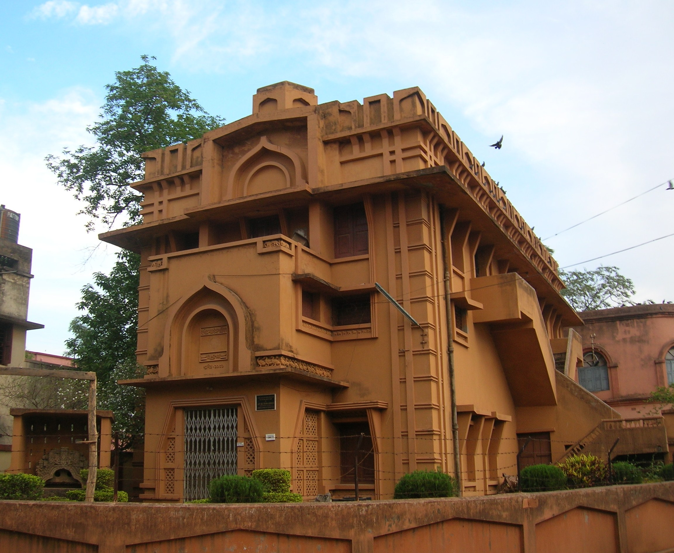 Acharya Jogesh Chandra Purakriti Bhaban, Vangiya Sahitya Parishad Museum, Bishnupur, Bankura dist., West Bengal, India.